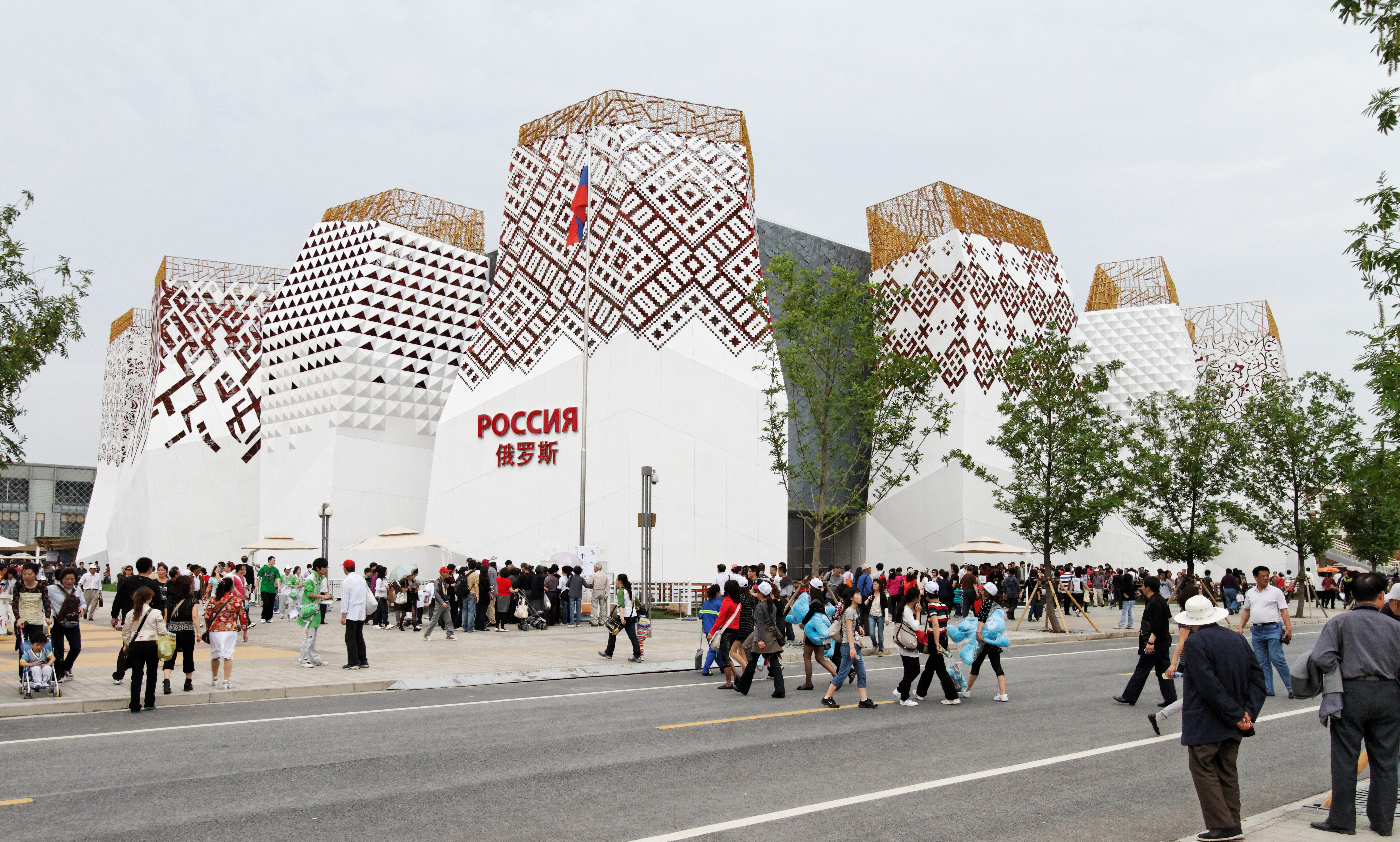 Expo 2010